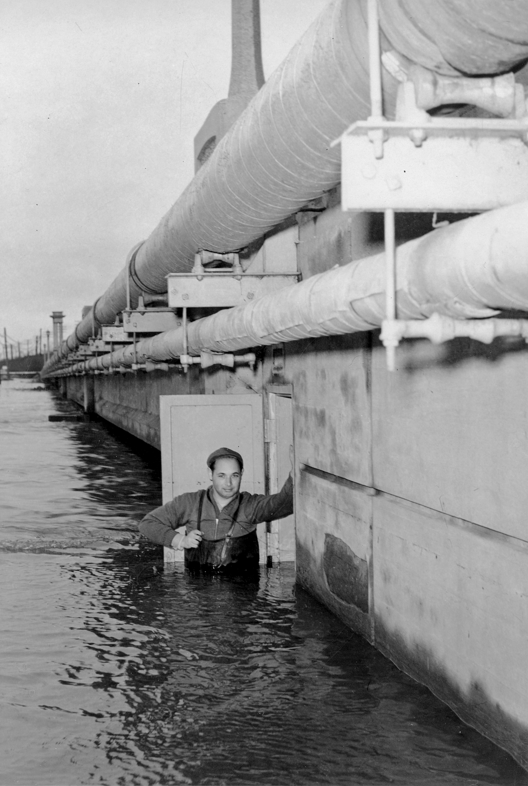 December 31, 1948 flood at Manville, New Jersey. Image showing Walter T. Sittner inspecting a gage from the gage house built into the bridge abutment during the flood of December 31, 1948 at USGS gauging station No. 01400500, Raritan River at Manville. The gauging station photo was taken on the left bank of the Raritan River at the downstream side of the North Main Street (CR-533/Finderne Avenue) bridge at Manville, and 1.4 mi upstream from Millstone River.